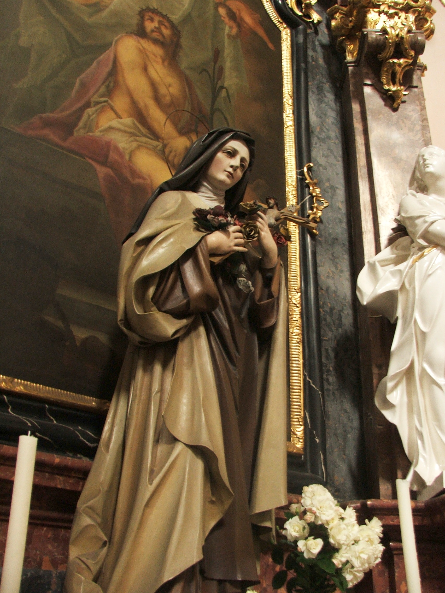 Most Holy Trinity Church in Fulnek, Czechia. The lefthand rear lateral altar of the aisle. Ahead the statue of St. Teresa of the Child Jesus, behind that the painting of Suffering of Jesus.